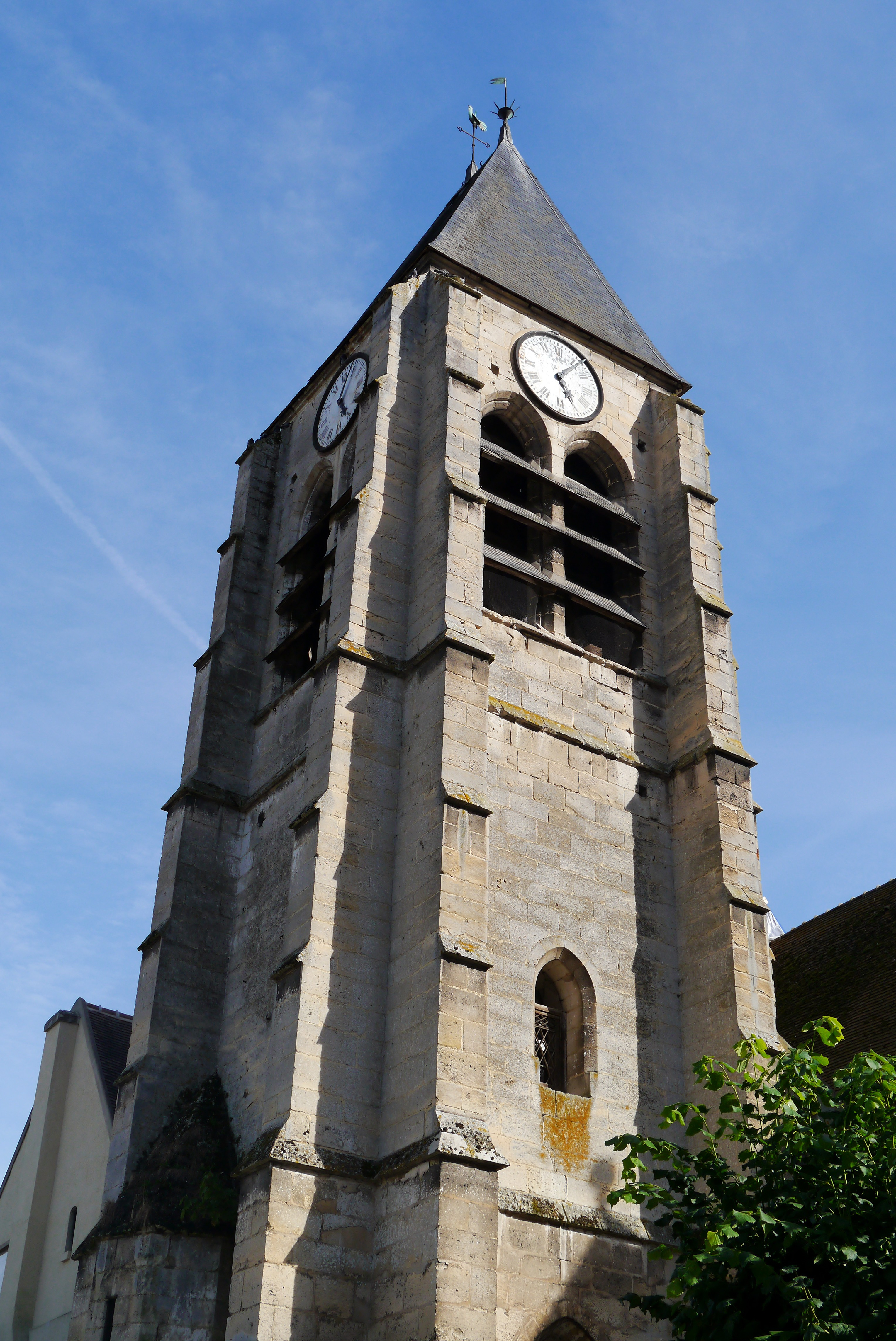 Église Saint-Germain-l'Auxerrois, Presles, France. .